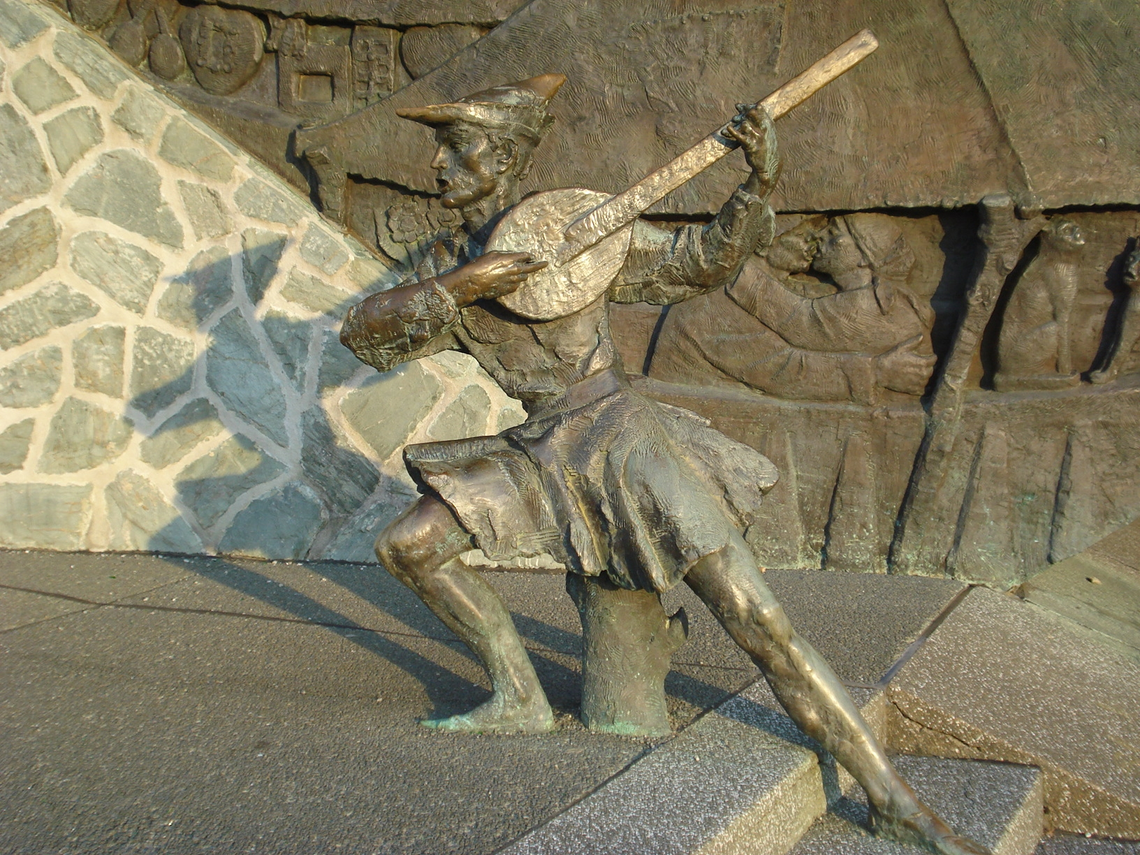 Petrica Kerempuh, main character in Miroslav Krleža's "Ballads of Petrica Kerempuh" (part of the 1573 Peasants' Revolt monument in Gornja Stubica, Croatia - work of Antun Augustinčić, a prominent Croatian sculptor)